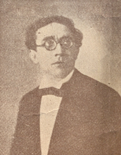 Portrait of the Bulgarian opera vocalist Mihail Popov (1899-1978) on a poster "Bulgarian scenic art 1900-1932"